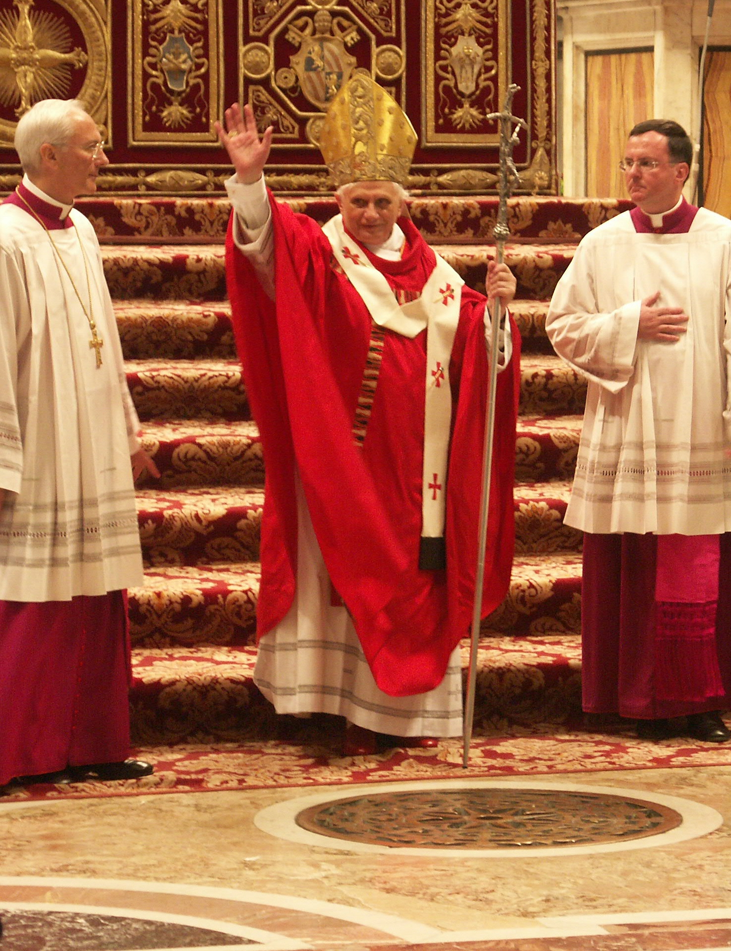 Benedictus XVI in St Peter's Basilica, on May 15th, 2005.